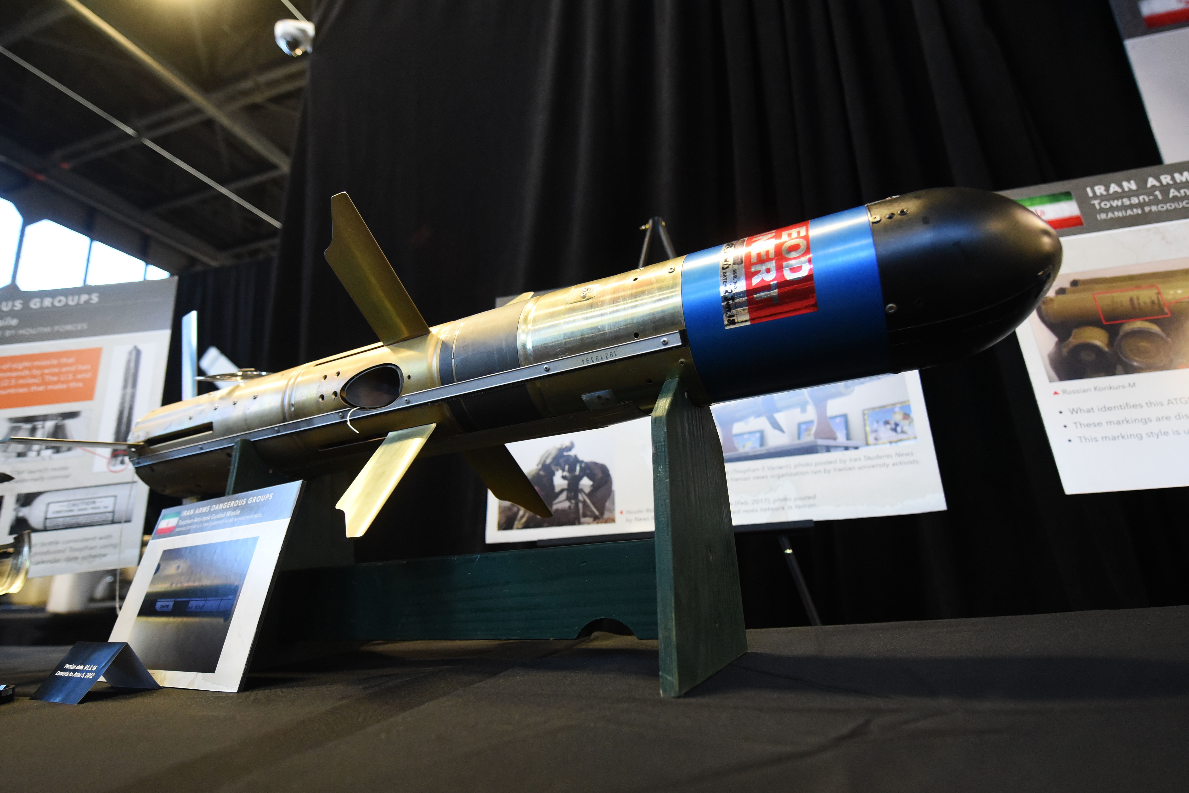 An Iranian Toophan anti-tank guided missile is seen at the Iranian Materiel Display at Joint Base Anacostia-Bolling, Washington, D.C., Nov. 29, 2018. The IMD contains materiel associated with Iranian proliferation into Yemen, Afghanistan and Bahrain. (DoD photo by Lisa Ferdinando)